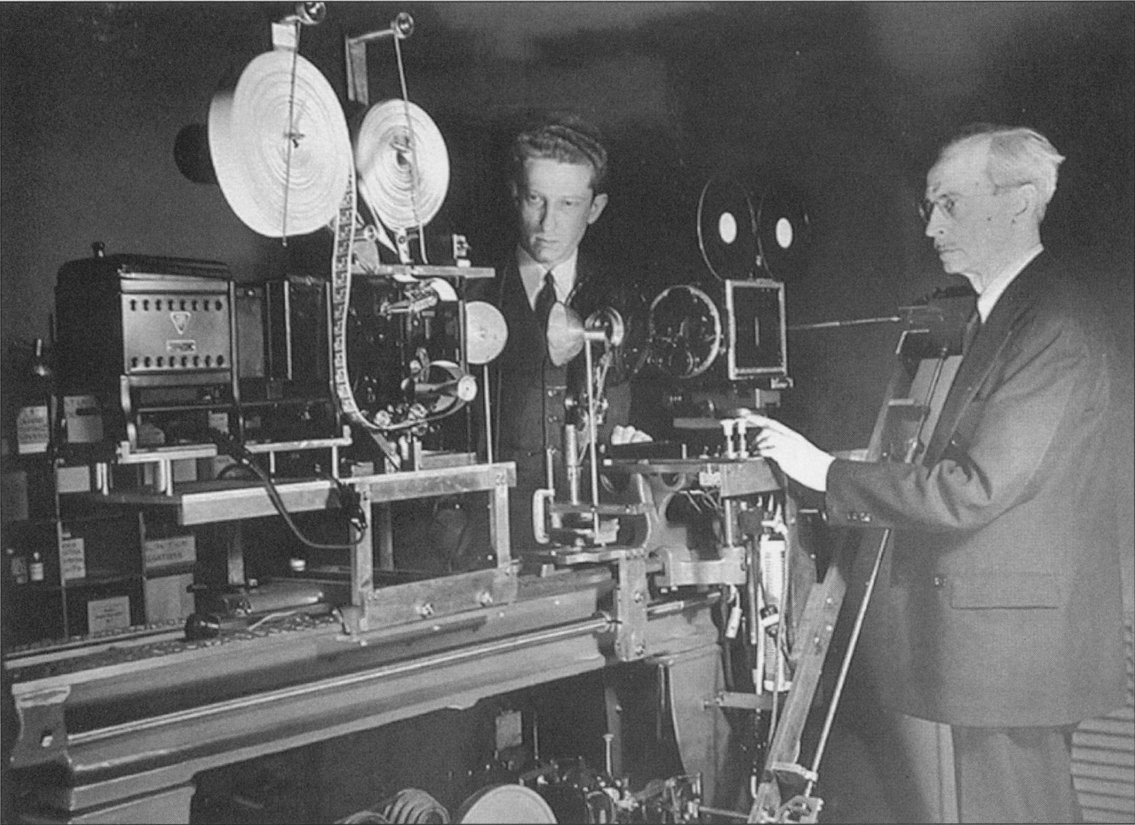 Howard Walls (LoC, left) and Carl Gregory (NARA, right) copying a roll from the LoC Paper Print Collection, optical printer modified by Gregory, March 1943. Original caption reads "Fig. 2. Howard Walls (left) and Carl Gregory (right) copying a paper print roll on Gregory's modified optical printer, March 1943. [Photograph 64-NAX-528, National Archives and Records Administration, Still Picture Branch"